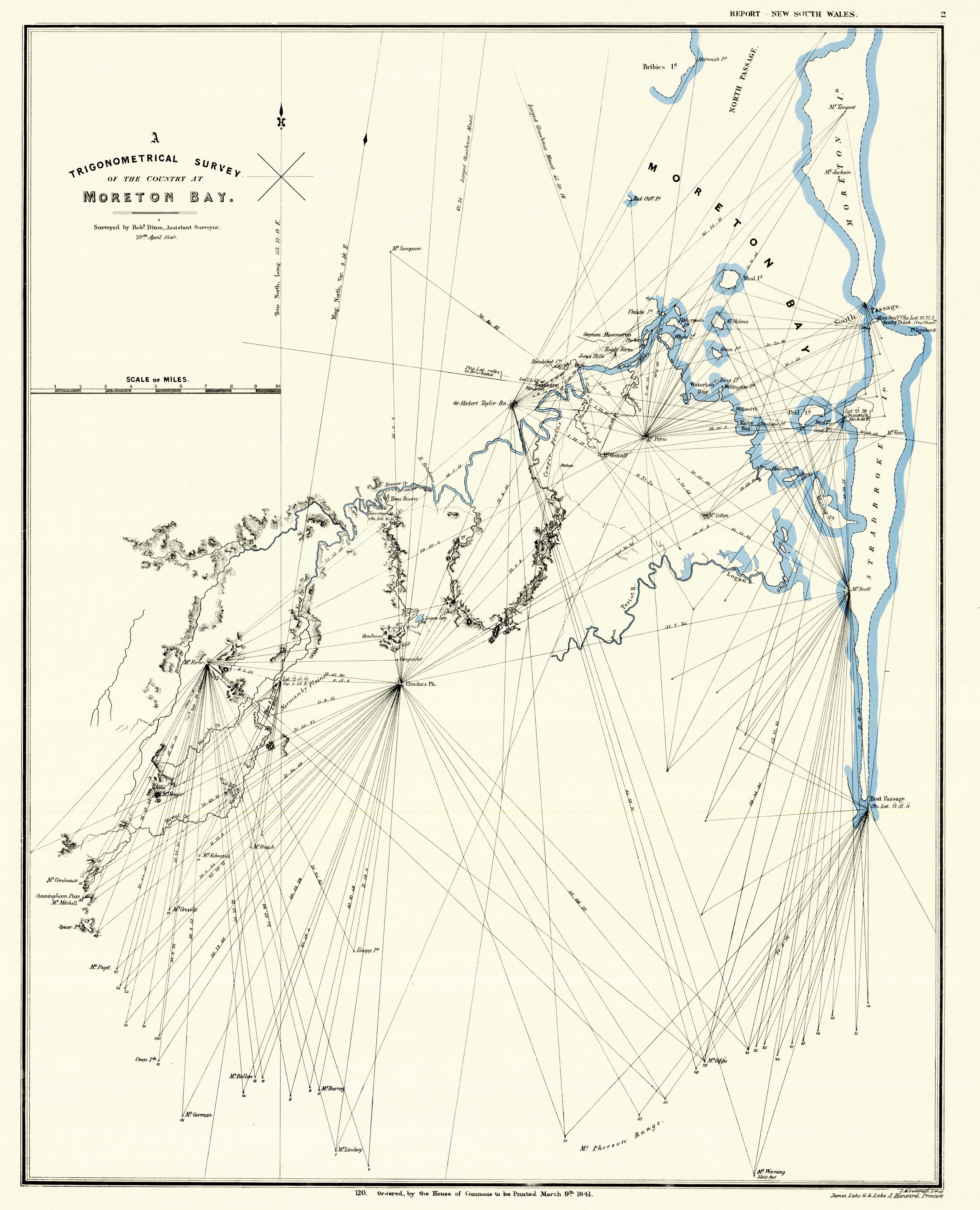 A map showing the Trigonometrical Survey of the Country at Moreton Bay surveyed by Robert Dixon Assistant Surveyor 29th April 1840